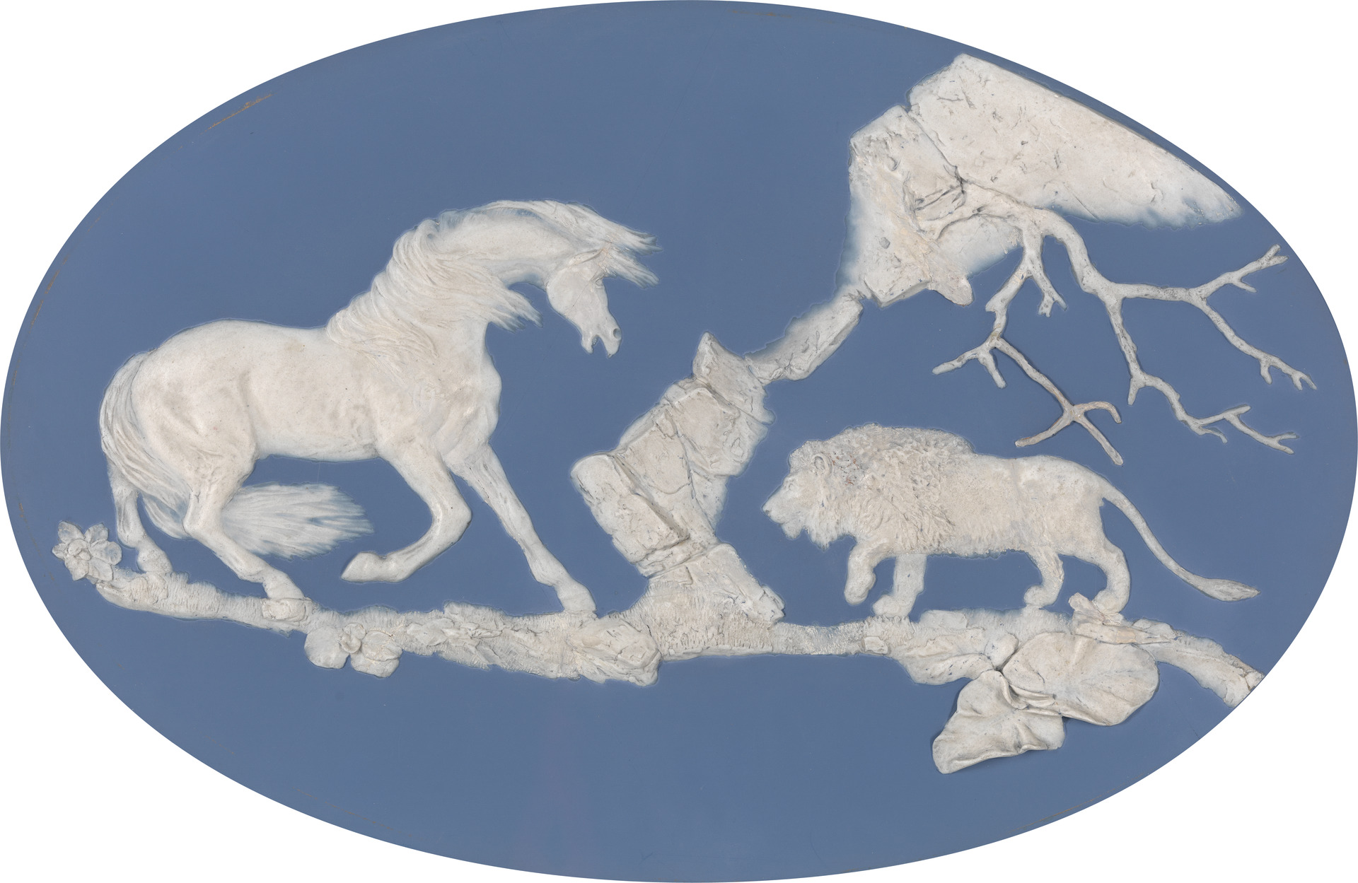 "Horse Frightened by a Lion (Episode A)," by the English potter and sculptor Josiah Wedgwood and Thomas Bentley, after George Stubbs. Modeled in 1780. Solid blue jasper with white relief, shallow oval. 10 inches x 16 inches (25.4 cm x 40.6 cm). Courtesy of the Paul Mellon Collection, Yale Center for British Art, Yale University, New Haven, Connecticut.